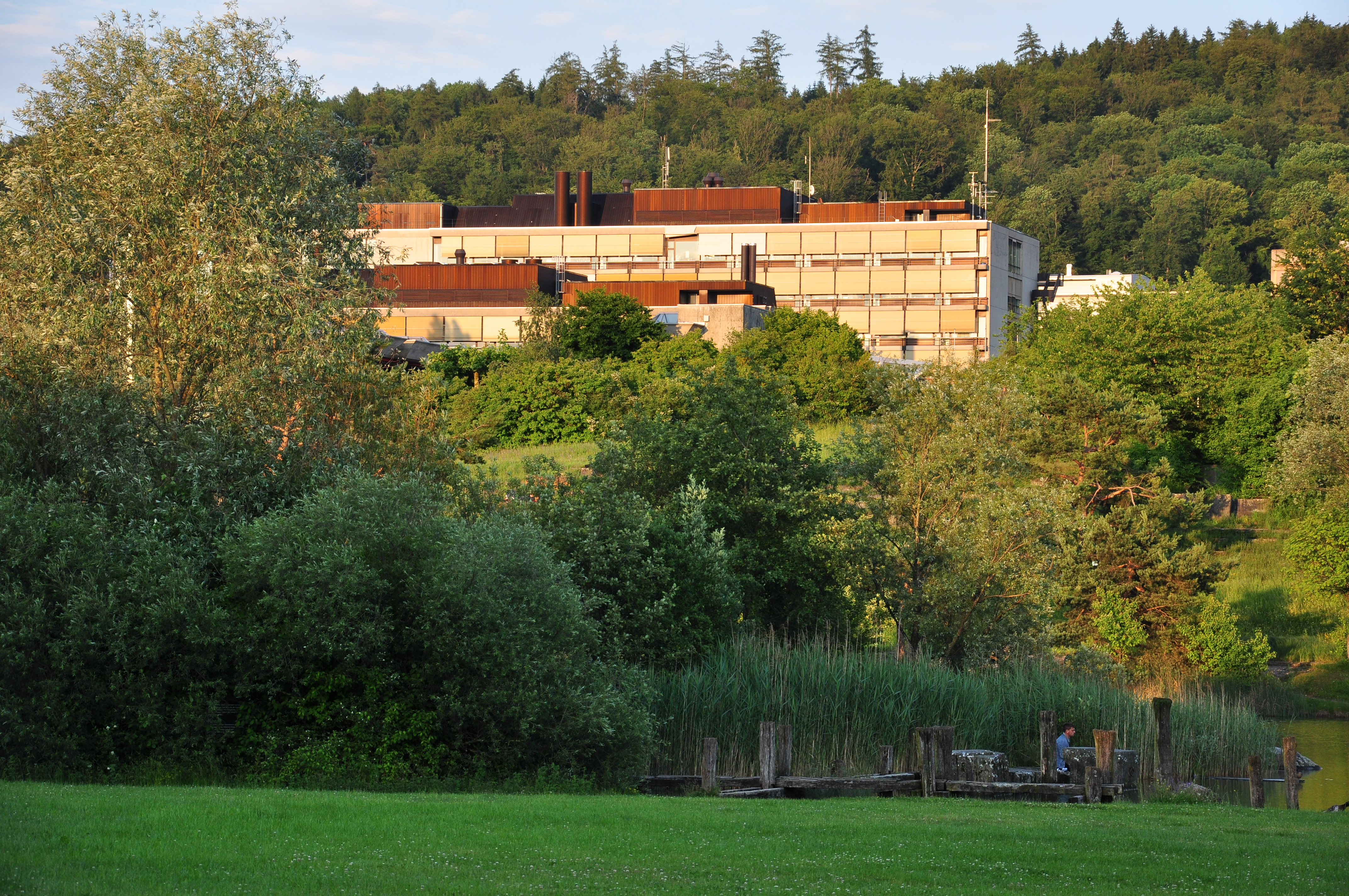 University of Zürich campus respectively Irchelpark in Zürich-Oberstrass (Switzerland)